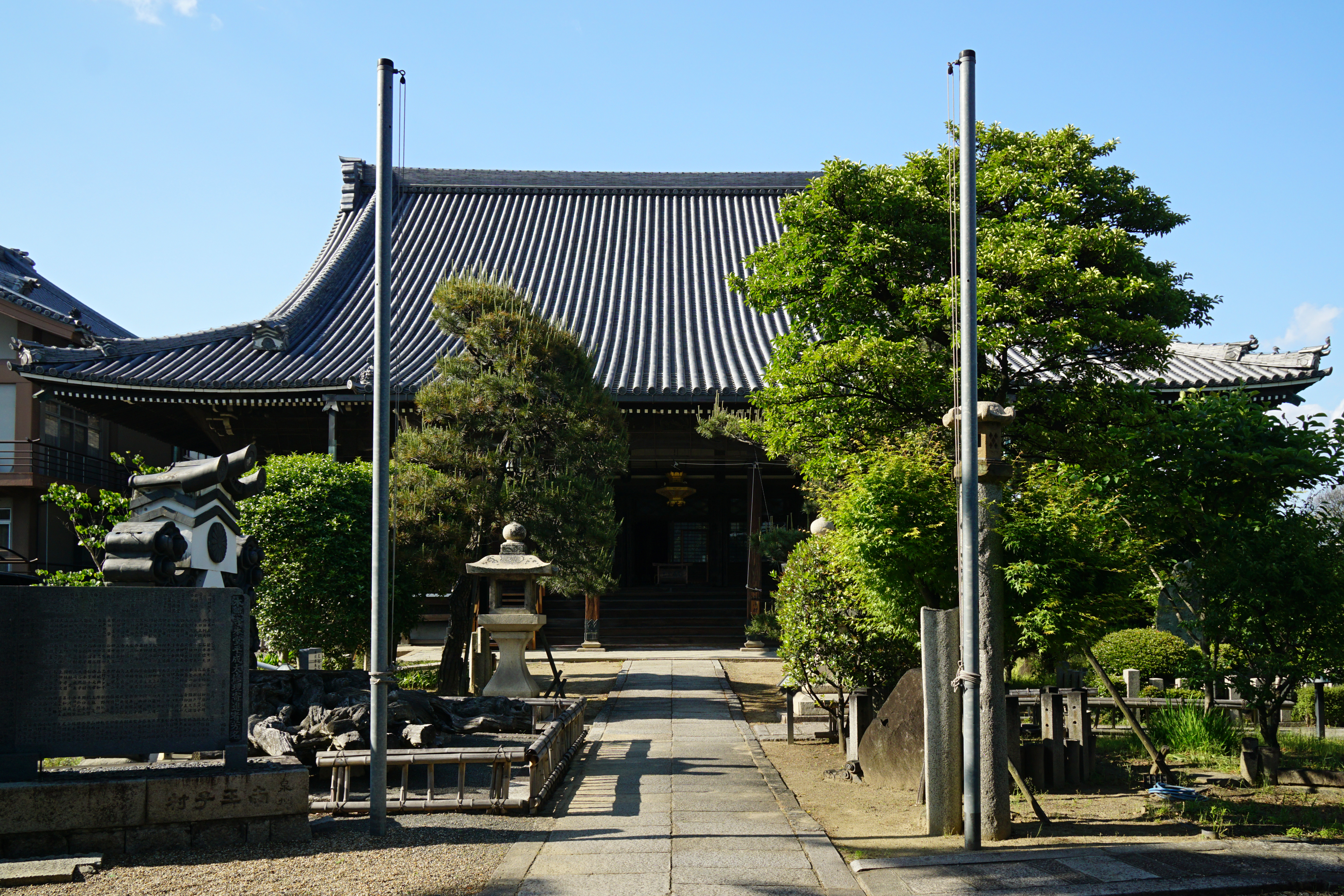 Honsho-ji in Takatsuki, Osaka prefecture, Japan